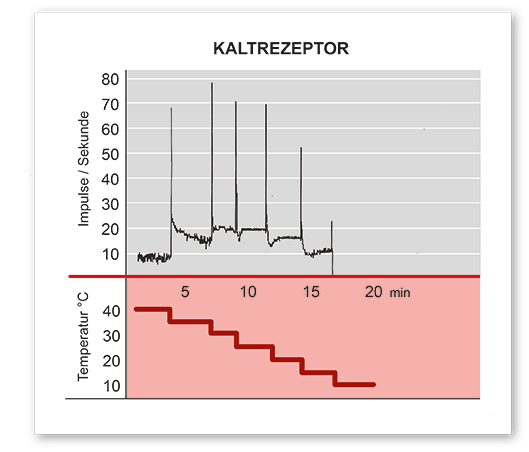 Vampire Bat, Desmodus rotundus: Firing rate of a cold receptor as a function of temperature and time. Discharge rate is given as impulses per second.